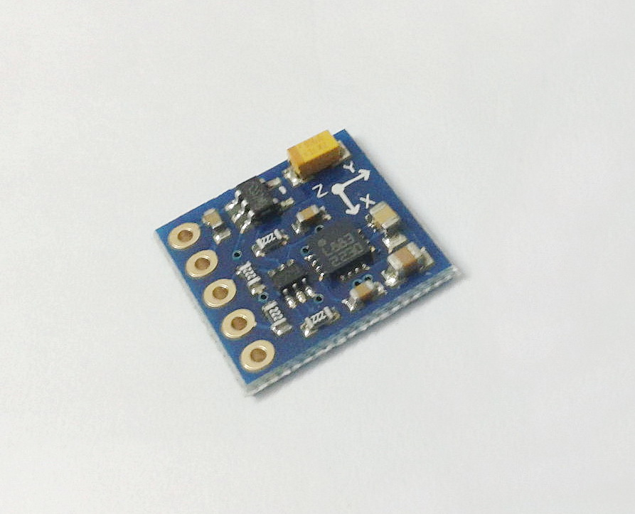 A Honeywell digital compass sensor (HMC5883L)